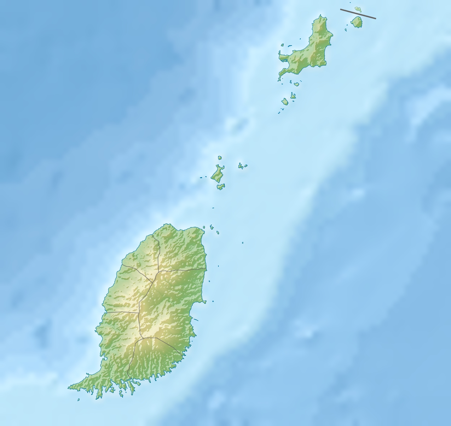 Relief location map of Grenada. Projection: Equirectangular projection, strechted by 102.0%. Geographic limits of the map: N: 12.55° N S: 11.95° N W: -61.9° E E: -61.25° E GMT projection: -JX24.299333333333333cd/22.954795144615492cd GMT region: -R-61.9/11.95/-61.25/12.55r GMT region for grdcut: -R-61.9/11.95/-61.25/12.55r Relief: SRTM30plus. Made with Natural Earth. Free vector and raster map data @ .